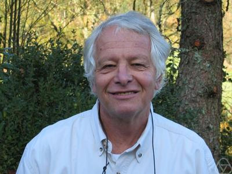 George Nemhauser, Oberwolfach 2005